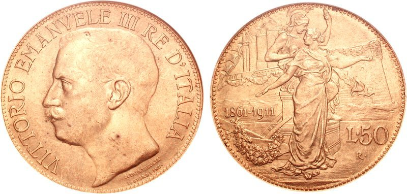 Italy, Regno d'Italia. Vittorio Emanuele III. 1900-1946. AV 50 Lire. 50th Anniversary of the Regno d'Italia issue. Rome mint. Dated 1911 VITTORIO EMANVELE III RE D’ITALIA, bare head left; D. TRENTACOSTE/L. GIORGI INC. in two lines below head Italia standing facing, head left, with arms outstretched; to left, garlanded plow; behind, Roma, holding globe and roll standing right on pedestal before battleship Regina Elena sailing right; 1861-1911 and L•50 (mark of value) flanking.